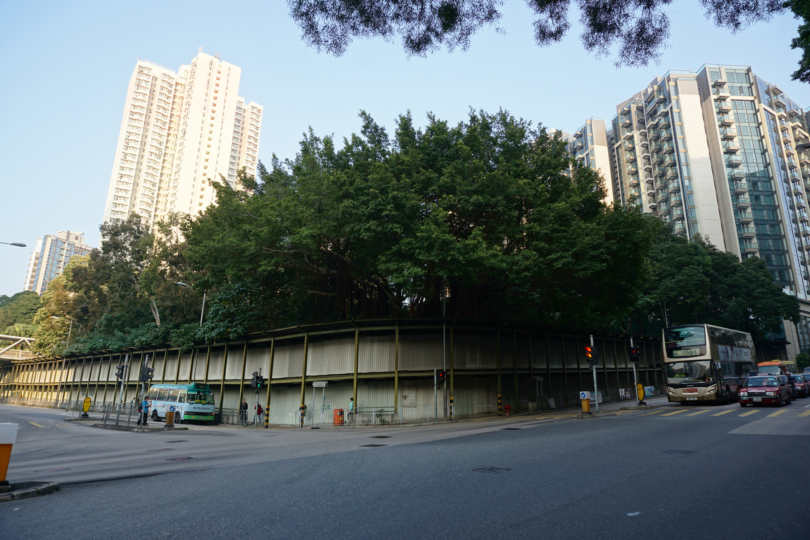 1921 firecracker factory explosion site in Ho Man Tin, Hong Kong.